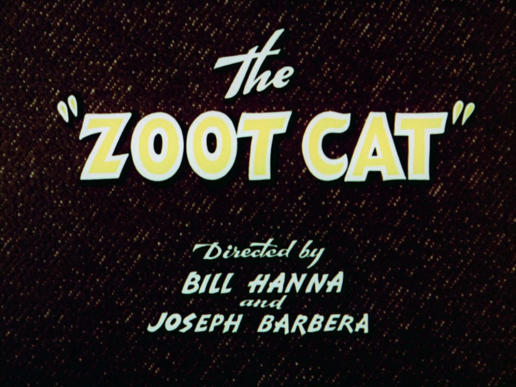 Title card from the short subject The Zoot Cat (1944).